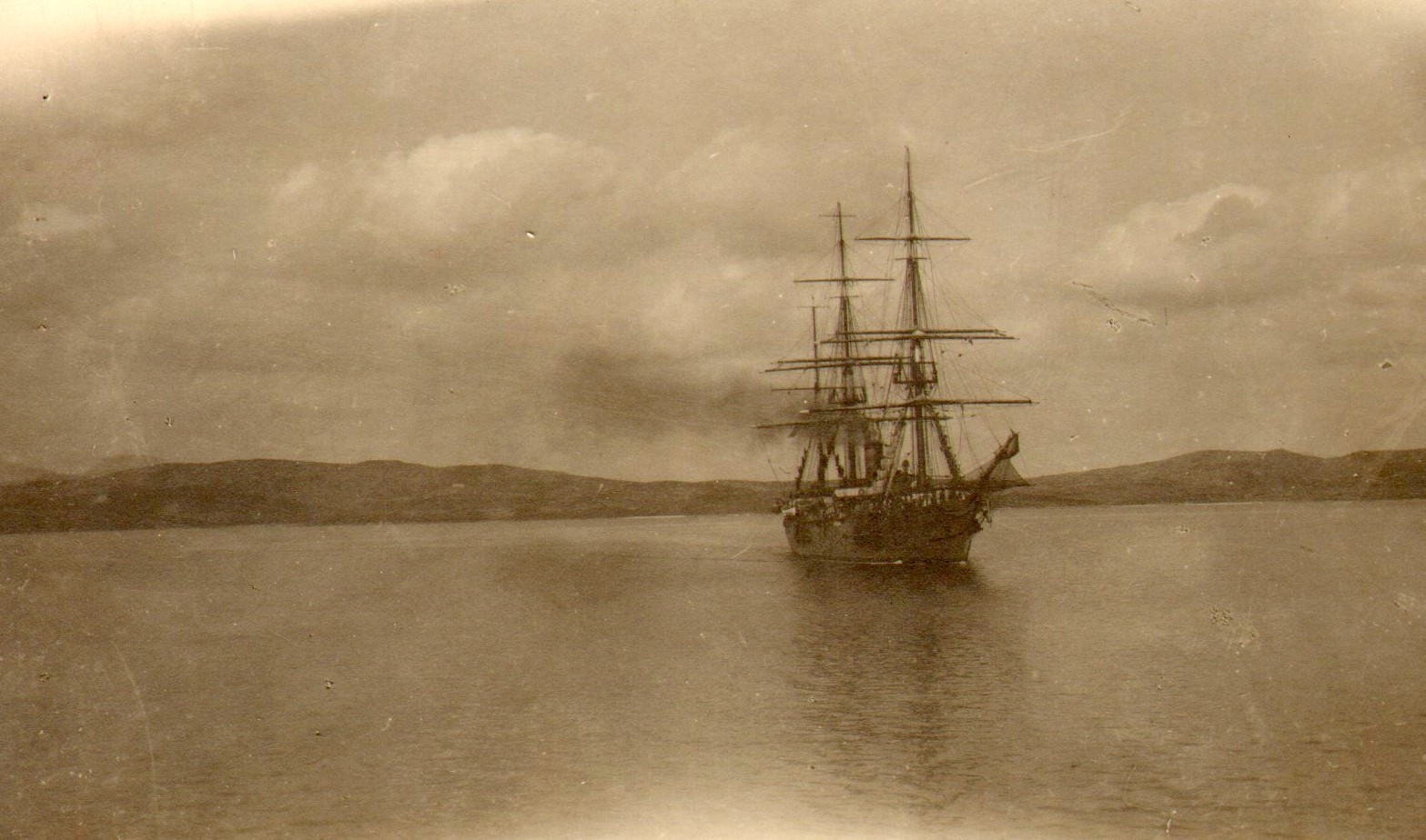 HM Ship Cristoforo Colombo. The original picture, scanned by Emiliano Burzagli, belongs to the Private archive of Burzaghi family, Italy.